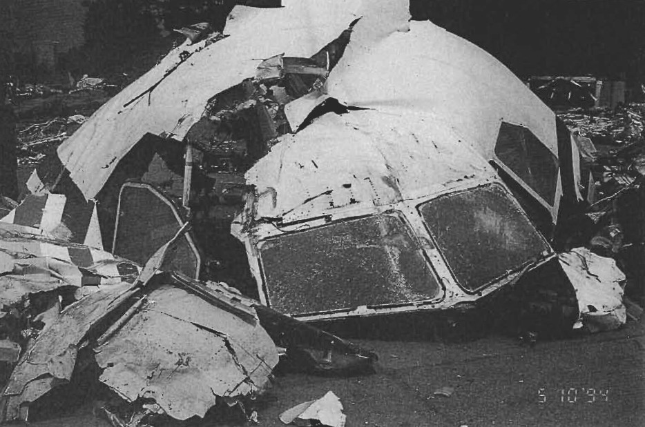 China Airlines Flight 140 wreckage